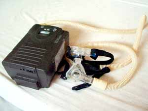 This photo is a unit of nasal CPAP for SAS（Sleep Apnea Syndrome）patients.CPAP means "Continuous Positive airway Pressure".